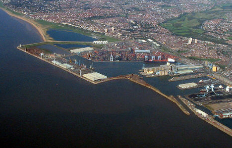 Aerial photo of the Seaforth Docks, in Crosby, Merseyside, England.